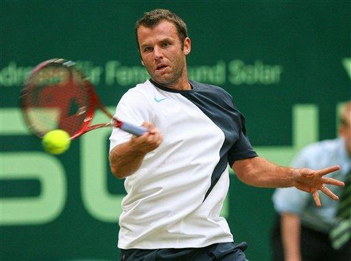 Marc Gicquel at the French Open